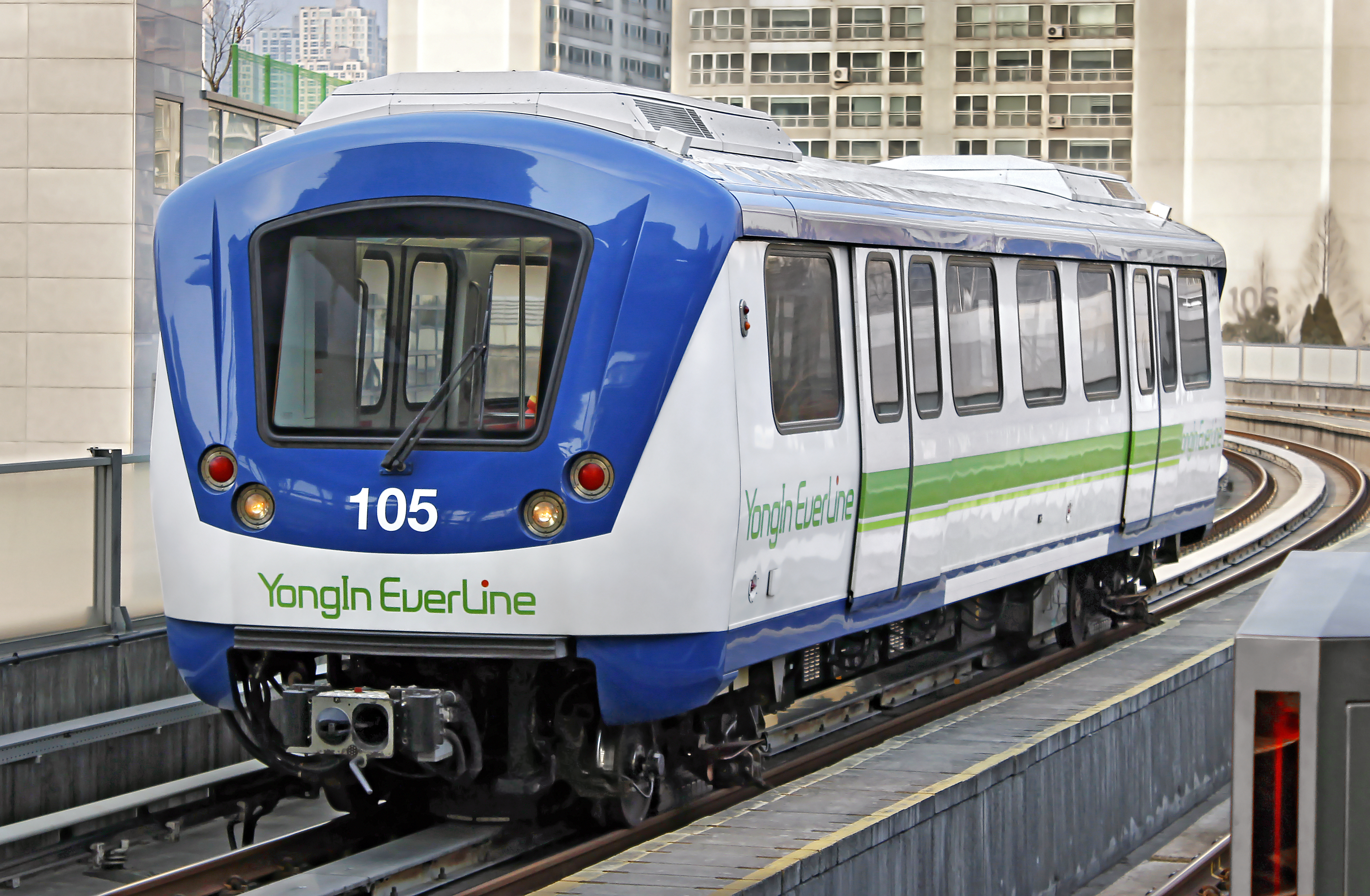 Yongin Everline Bombardier Innovia ART Railcar #105 (Normal Livery)